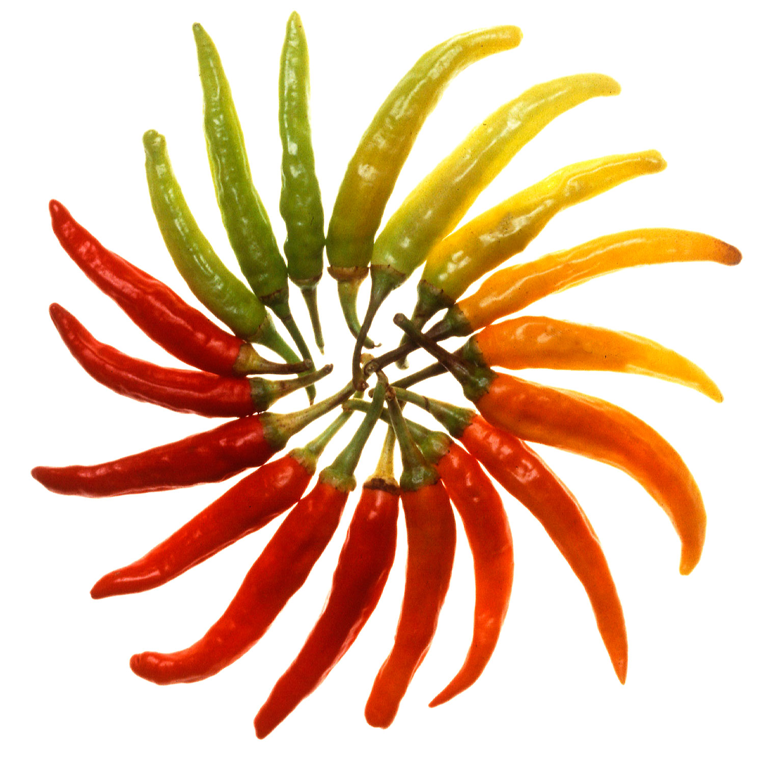 Charleston Hot peppers at varying stages of maturity.